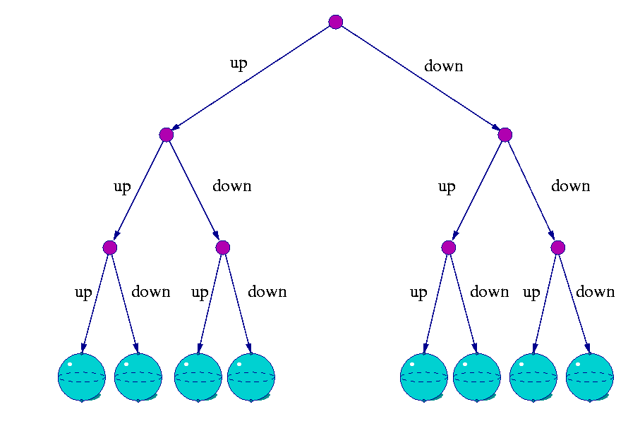 Many-worlds interpretation